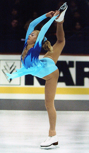 Zoya Douchine showing the Biellmann spin during her free skate at German National Championships of Figure Skating 2001 in Oberstdorf